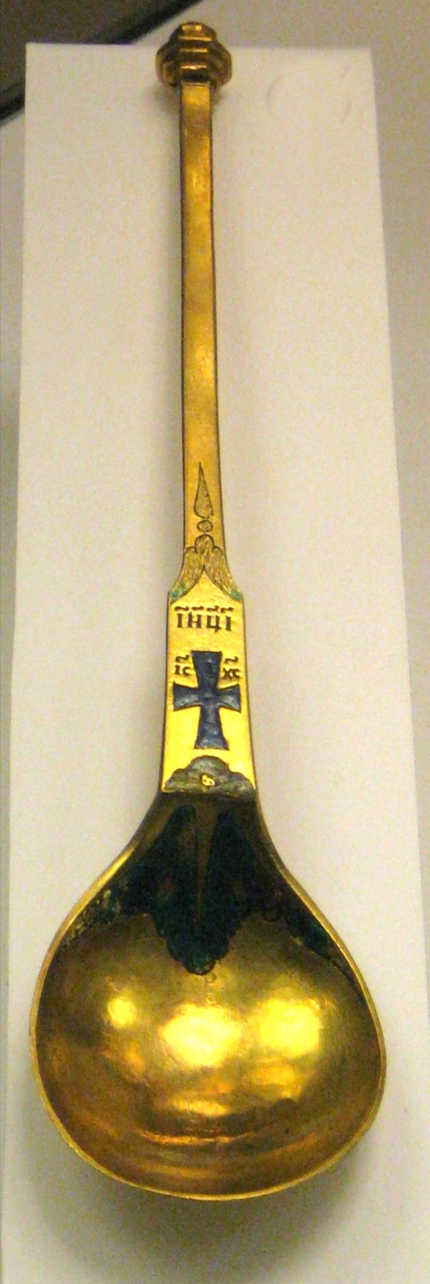 Spoon (liturgy). Лжица. Ukraine, end 17-early 18 c.